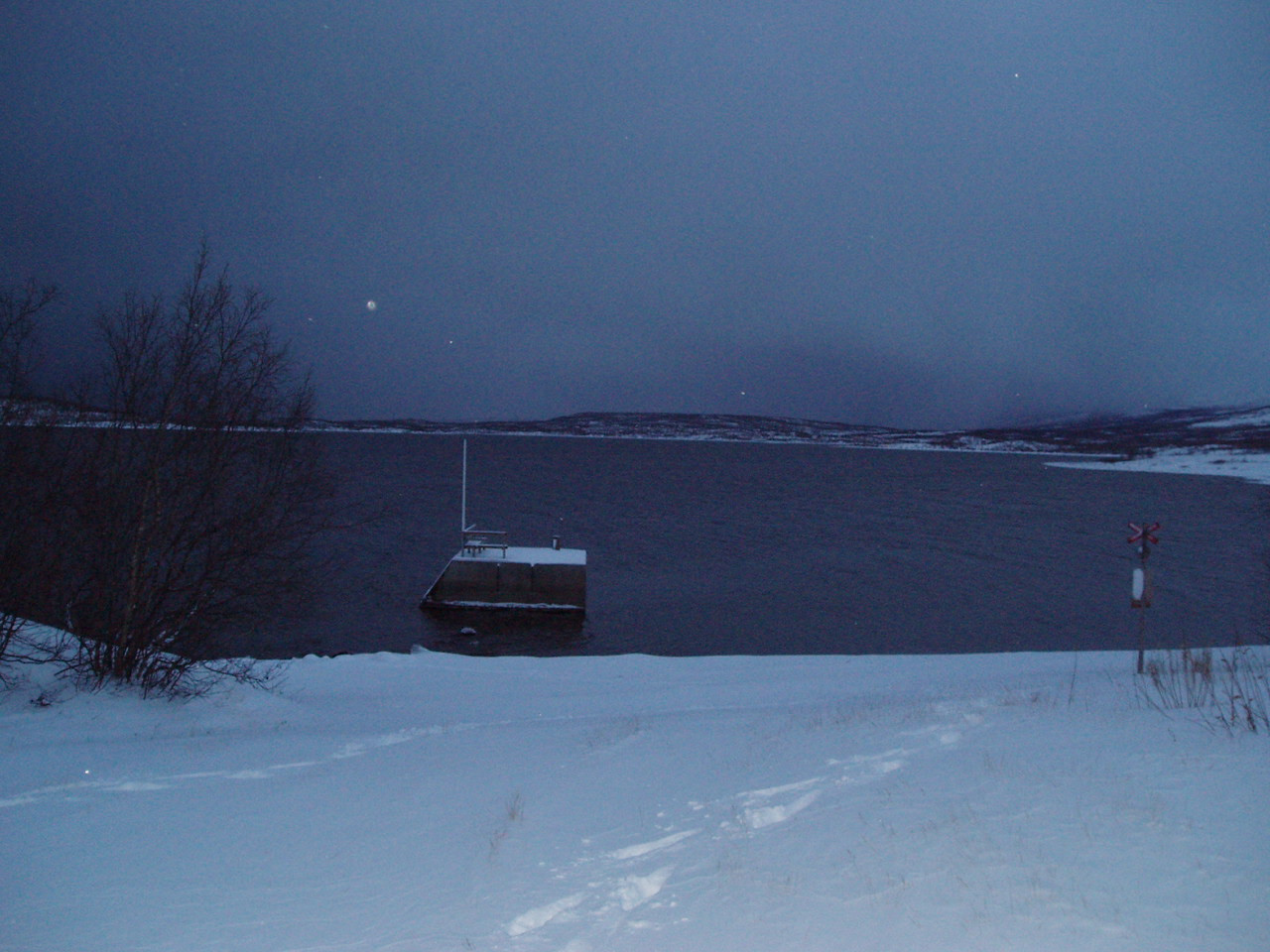 Torne träsk during polar nights, taken on December 16 2005 at southern side of the lake near Abisko Tourist Lodge.El lago Torneträsk durante las noches polares en la zona sur del lago, cerca del centro de recepción de Abisko (Abisko Tourist Lodge).